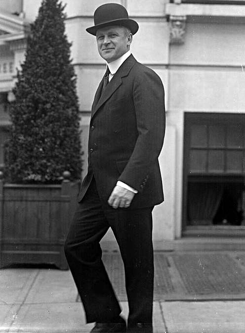 Alvan T. Fuller, Congressmann from Massachusetts and Governor of that state